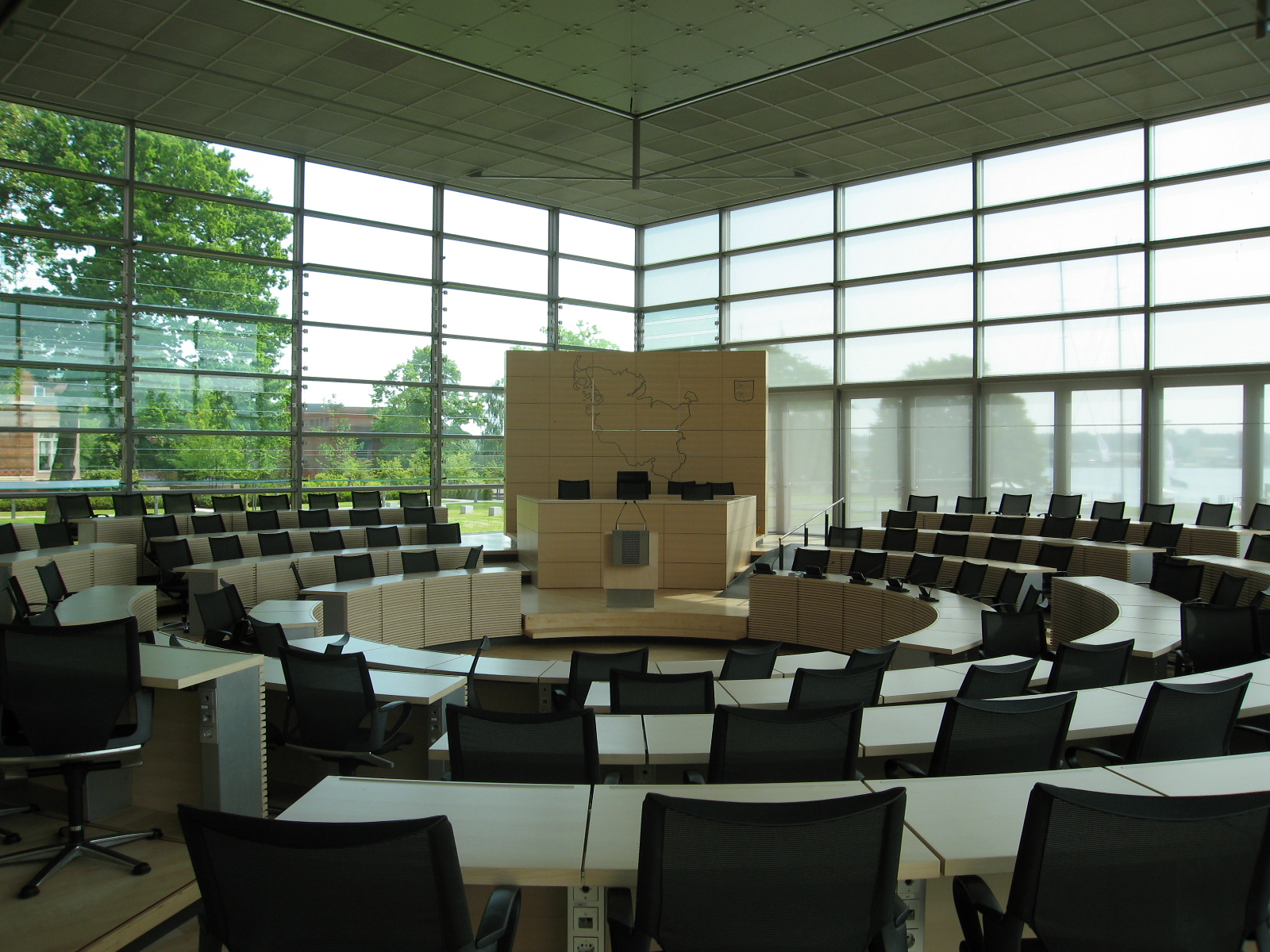 Schleswig-Holstein Parliament in Kiel, Germany.